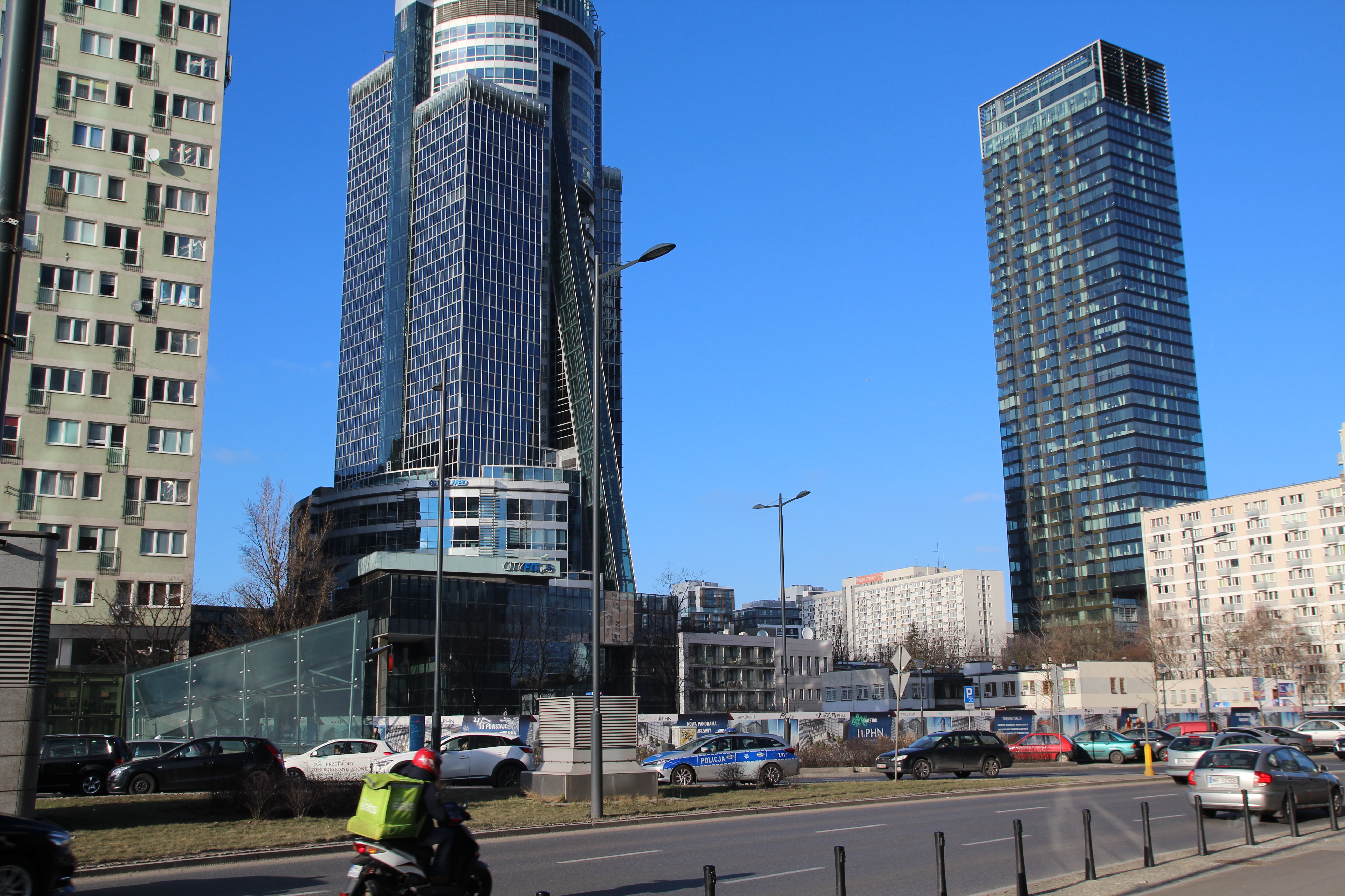 PHN Tower construction site Warsaw, in the background the Cosmopolitan and the Spektrum buildings